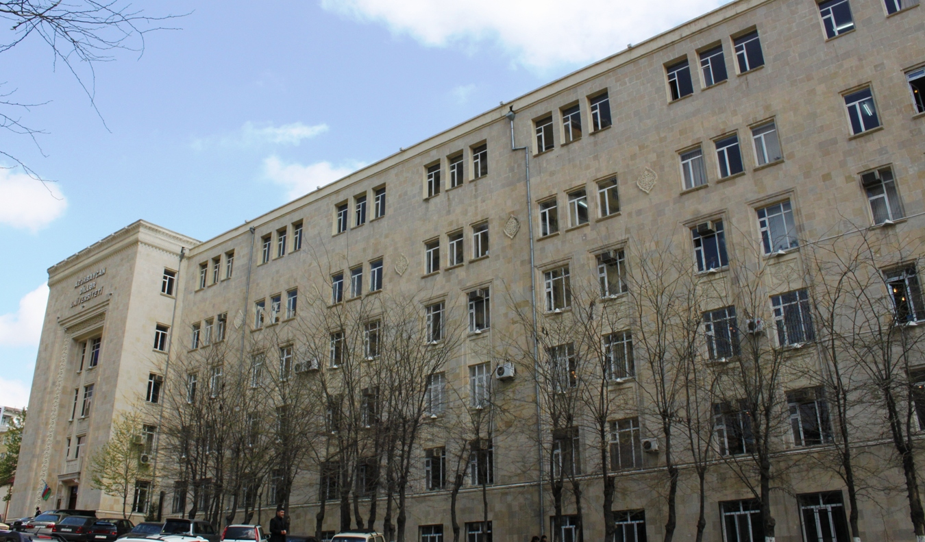 Language university in Baku